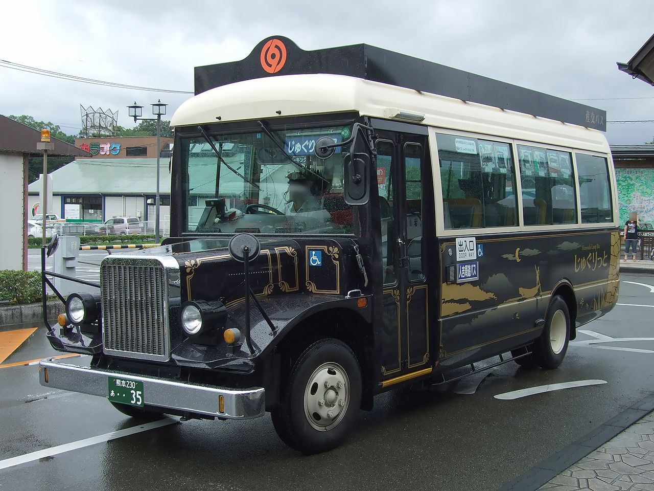 Hitoyoshi Loop Bus Company:Sanko Bus Use:transit bus Car license:熊本230 あ・・35 Chassis manufacturer:Mitsubishi Fuso Truck and Bus Corporation Coachbuilder:Mitsubishi Fuso Truck and Bus Oe bus factory Location:at Hitoyoshi Station, Hitoyoshi City, Kumamoto, Japan.